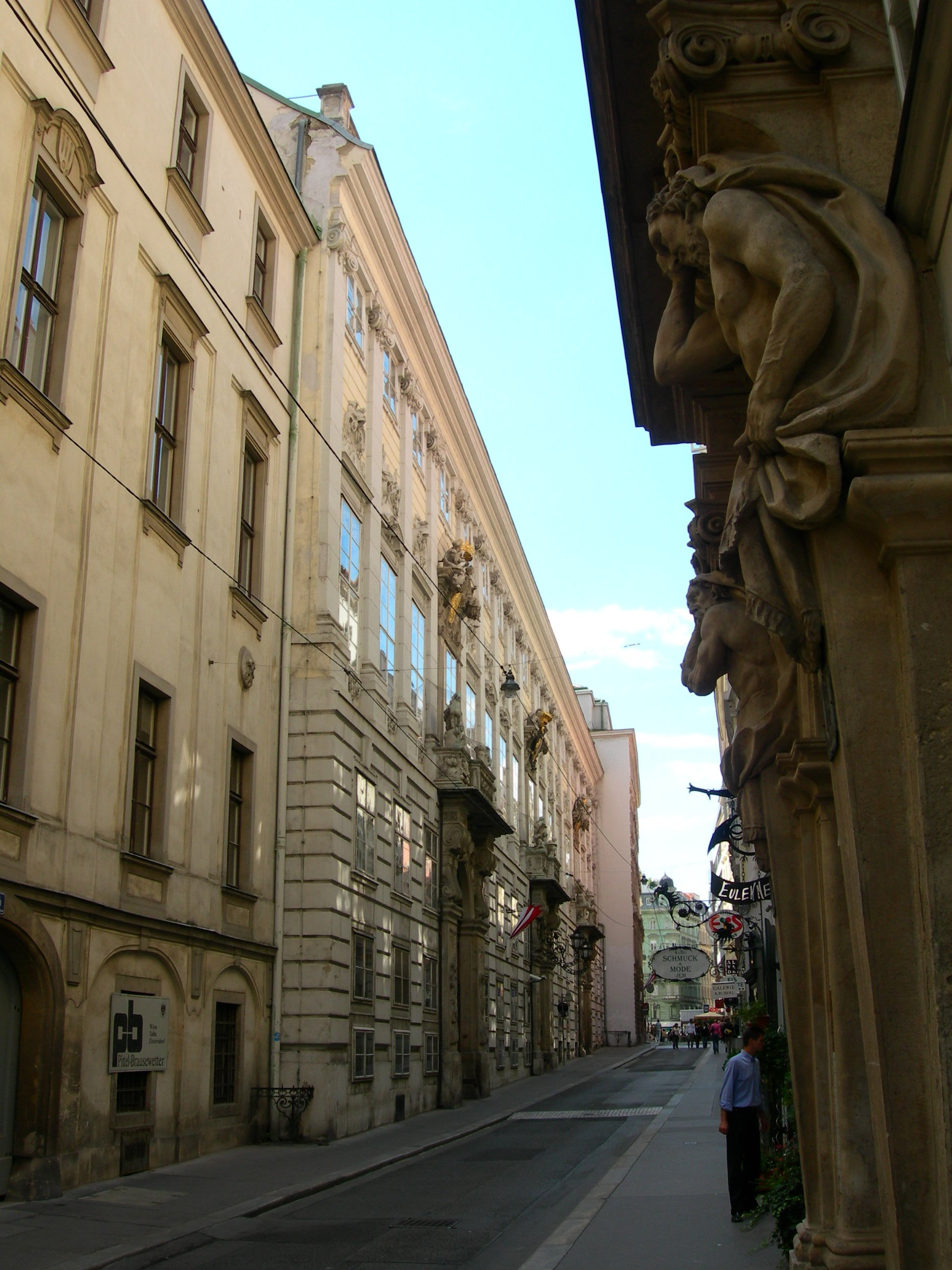 Image of the Winterpalais Prinz Eugen in Vienna, today main seat of the Austrian Federal Ministry of Finance.